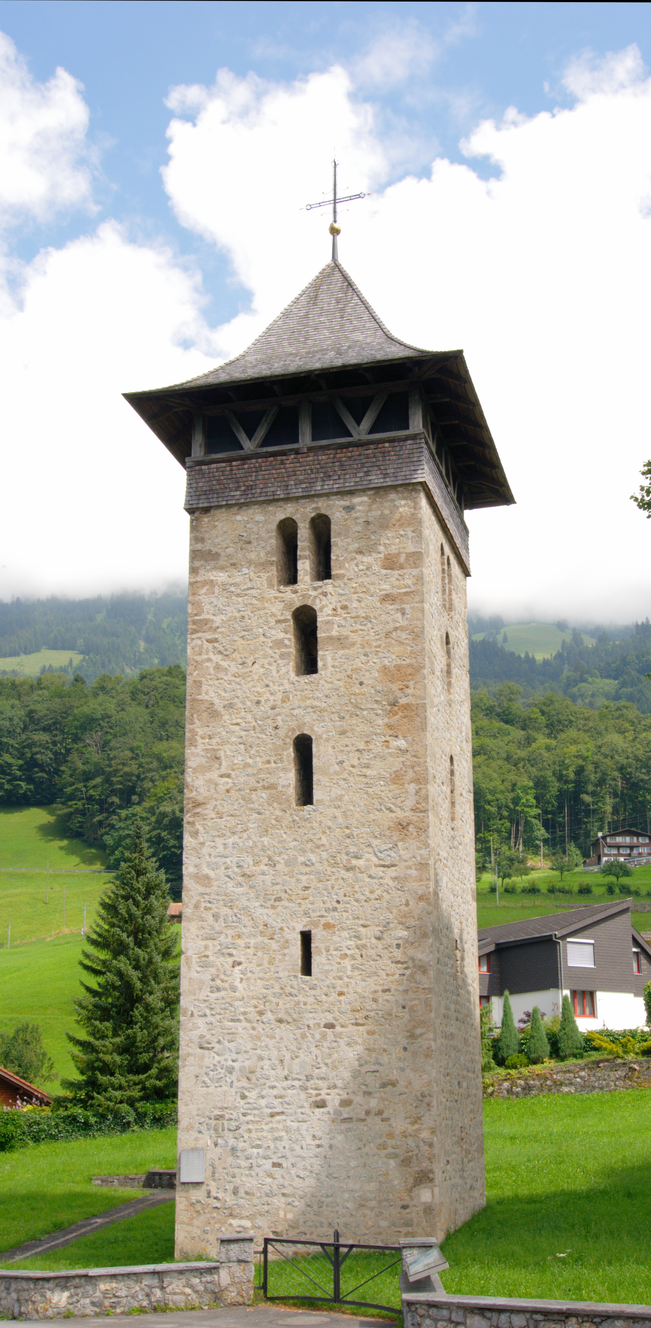 Romanesque church tower in Lungern. The only remainder of the old parish church after a series of flood catastrophes in the 1880s.